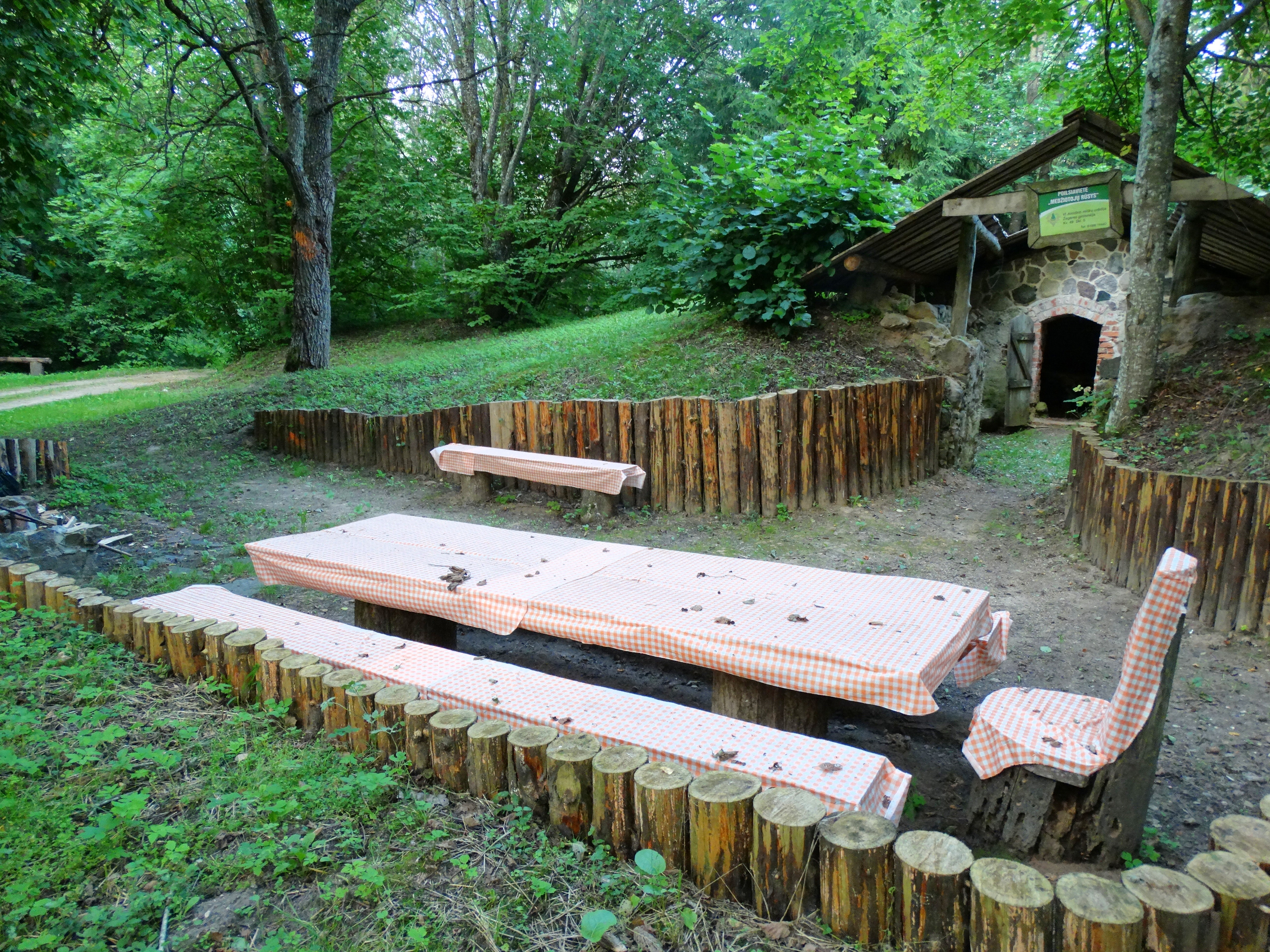 Recreation shelter, Žagarė forest, Joniškis district, Lithuania